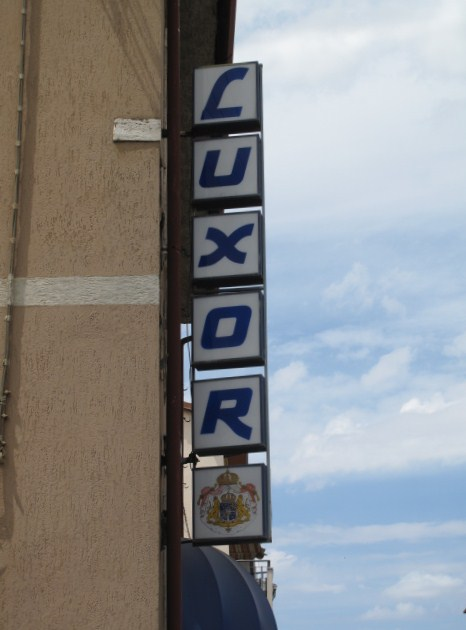 Luxor sign in Italy.